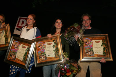 ZOOP dvd presentation